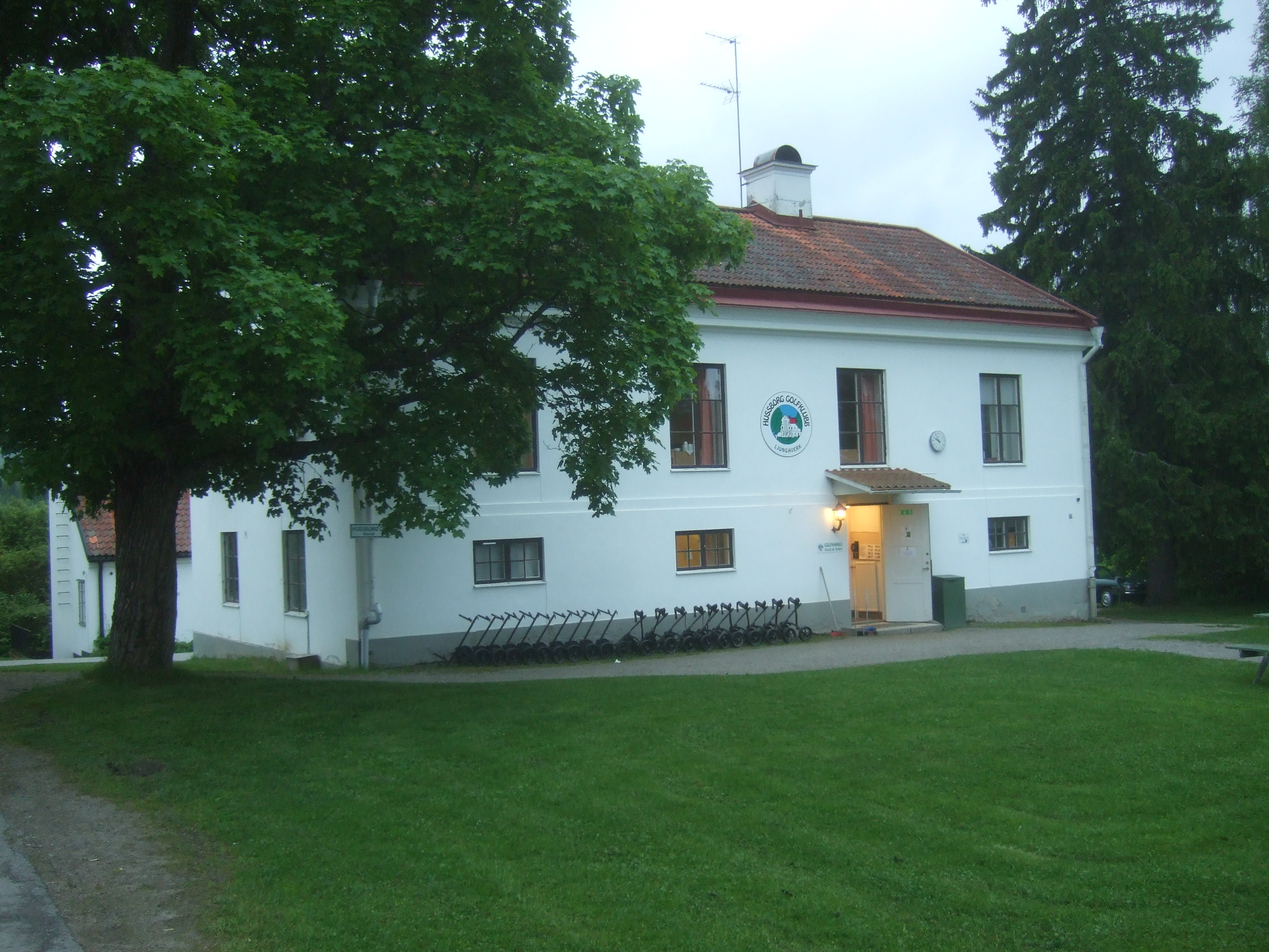 The clubhouse of Hussborg Golf Club, Ljungaverk, Ånge Municipality, Sweden, viewed from northeast